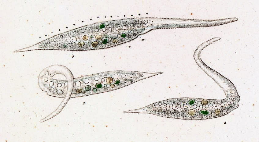 Amphileptus margaritifer (=Dileptus margaritifer) from Die Infusionsthierchen als vollkommene Organismen, 1838